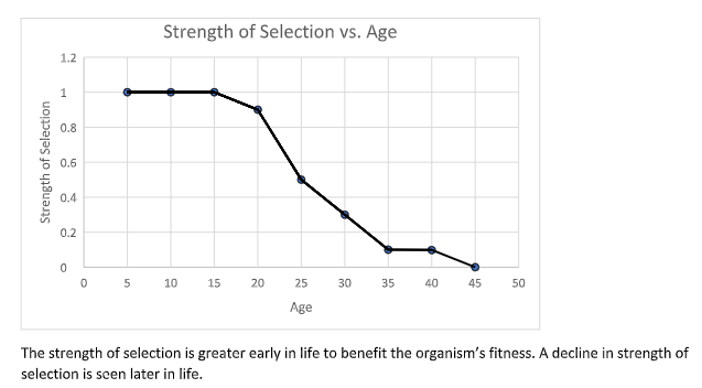 A Plot showing how the force of natural selection lessens as an organism ages.